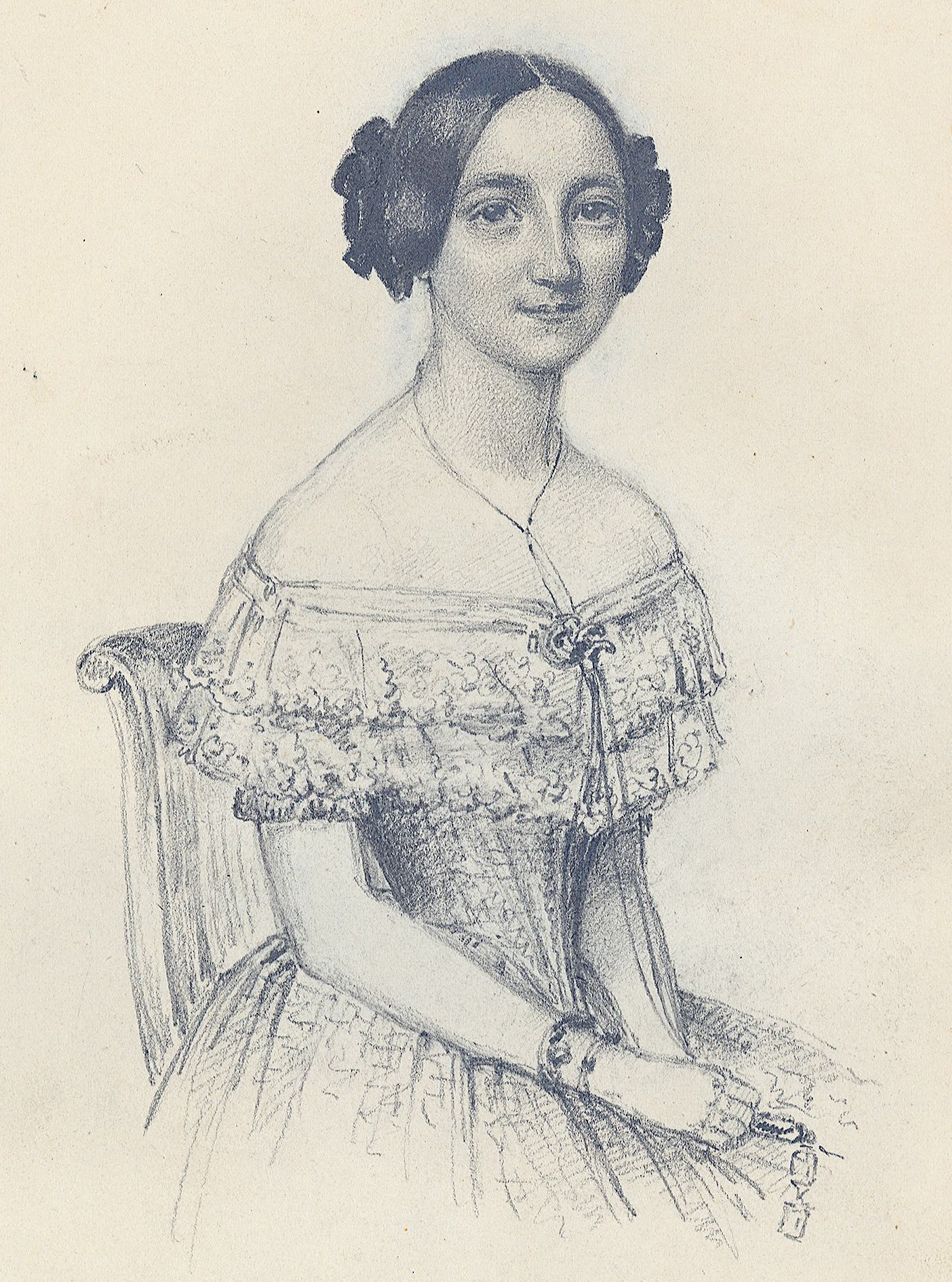 Vilhelmina Fundin. After a drawing by M. Röhl 1842. Image from Nils Personne: Svenska Teatern VIII (1927).